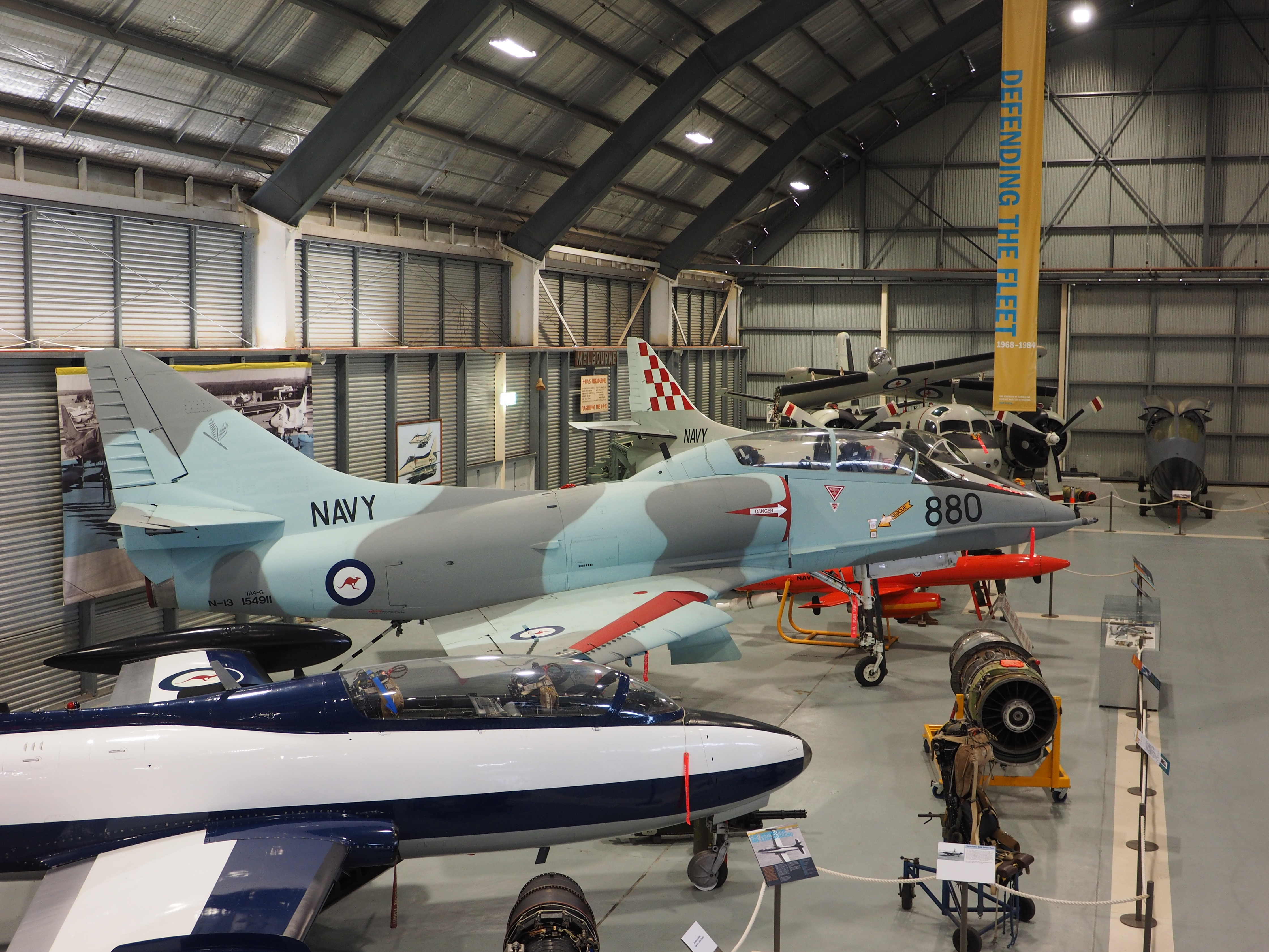 The Defending the Fleet section of the Fleet Air Arm Museum. The aircraft in this section were operated by the Fleet Air Arm between the late 1960s and early 1980s.